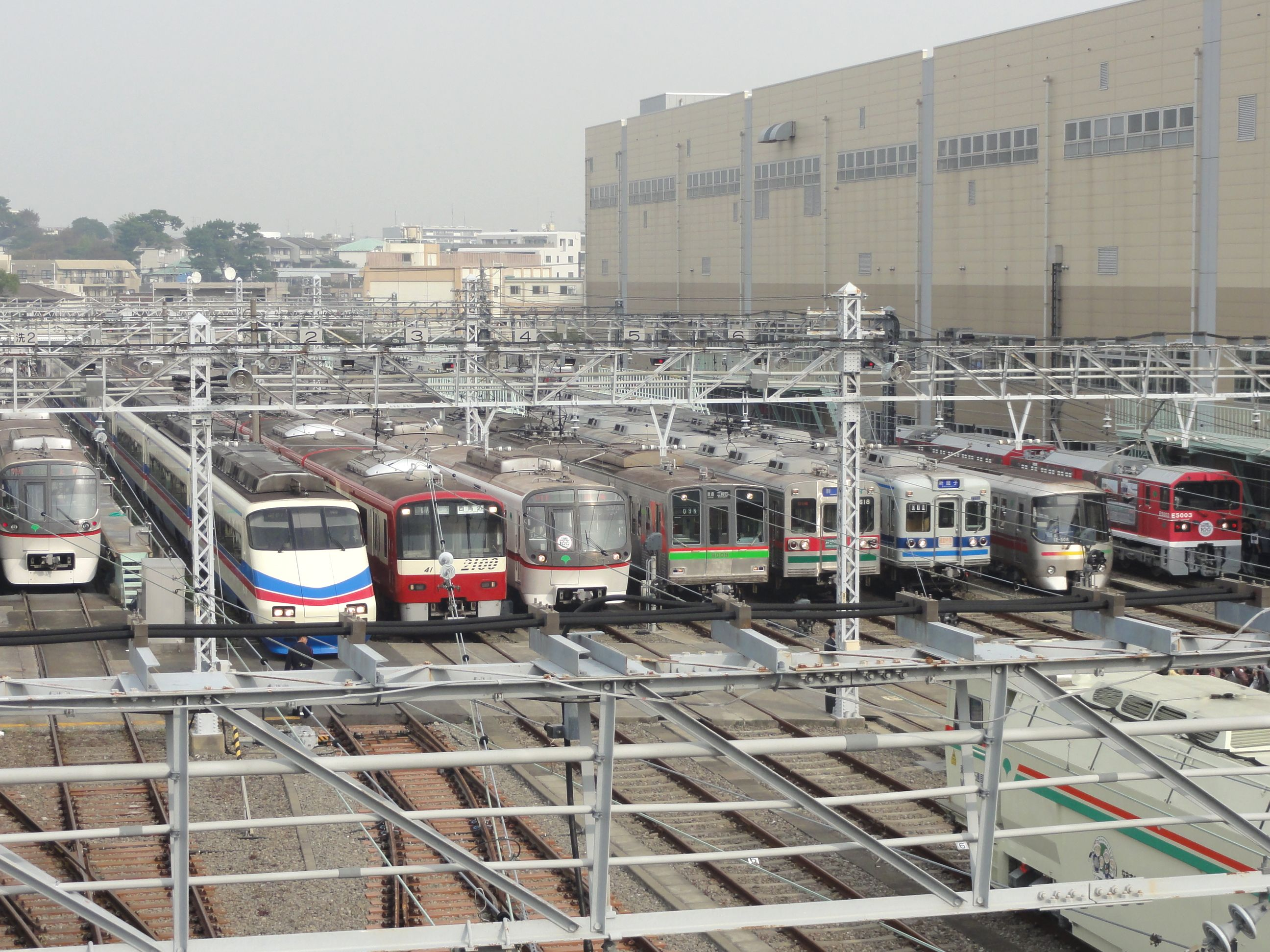 Tokyo Toei Subway Magome Rolling Stock Inspection Depot in Ota, Tokyo, Japan